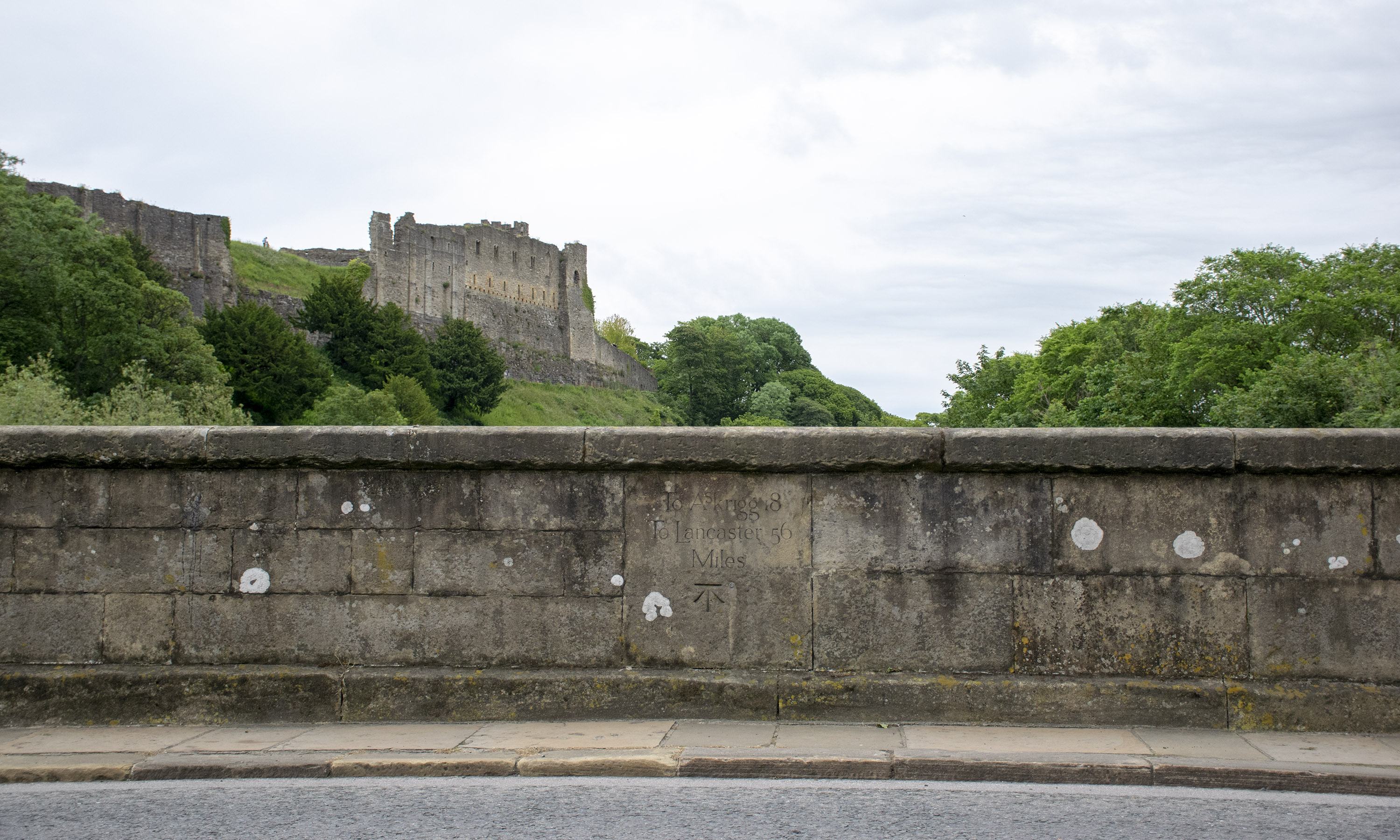 The Green Bridge at Richmond, a Grade II* listed structure that straddles the River Swale. This is the second bridge on this site and dates to 1789. The downstream side (this view) shows the milestone set into the bridge and the fact that the north side has three sets of stones uppermost, and the south side only has two sets of stones. This was down to two separate builders who started off separately from each side and met in the middle of the bridge. puts of Richmond Castle are seen beyond.